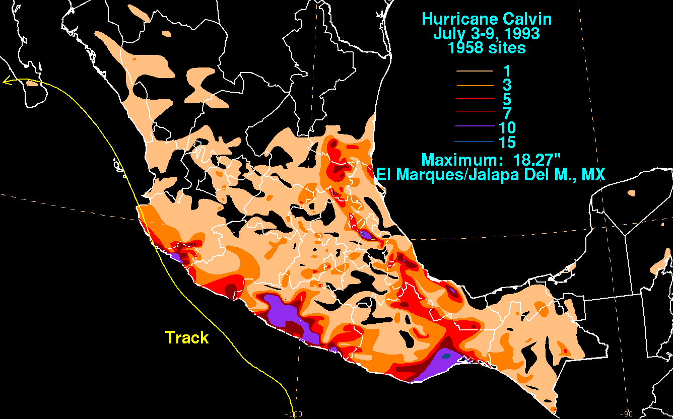 Storm total rainfall map of Hurricane Calvin during July 1993.